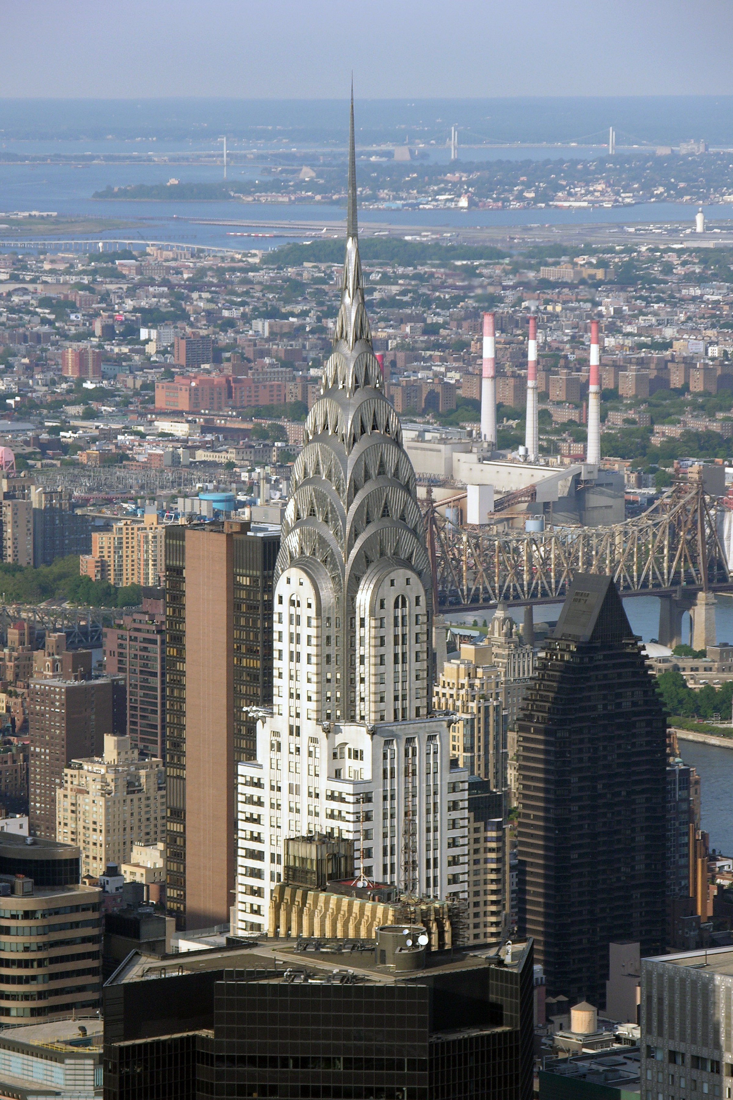 View from Empire State Building, 2005. Chrysler Building in New York City.